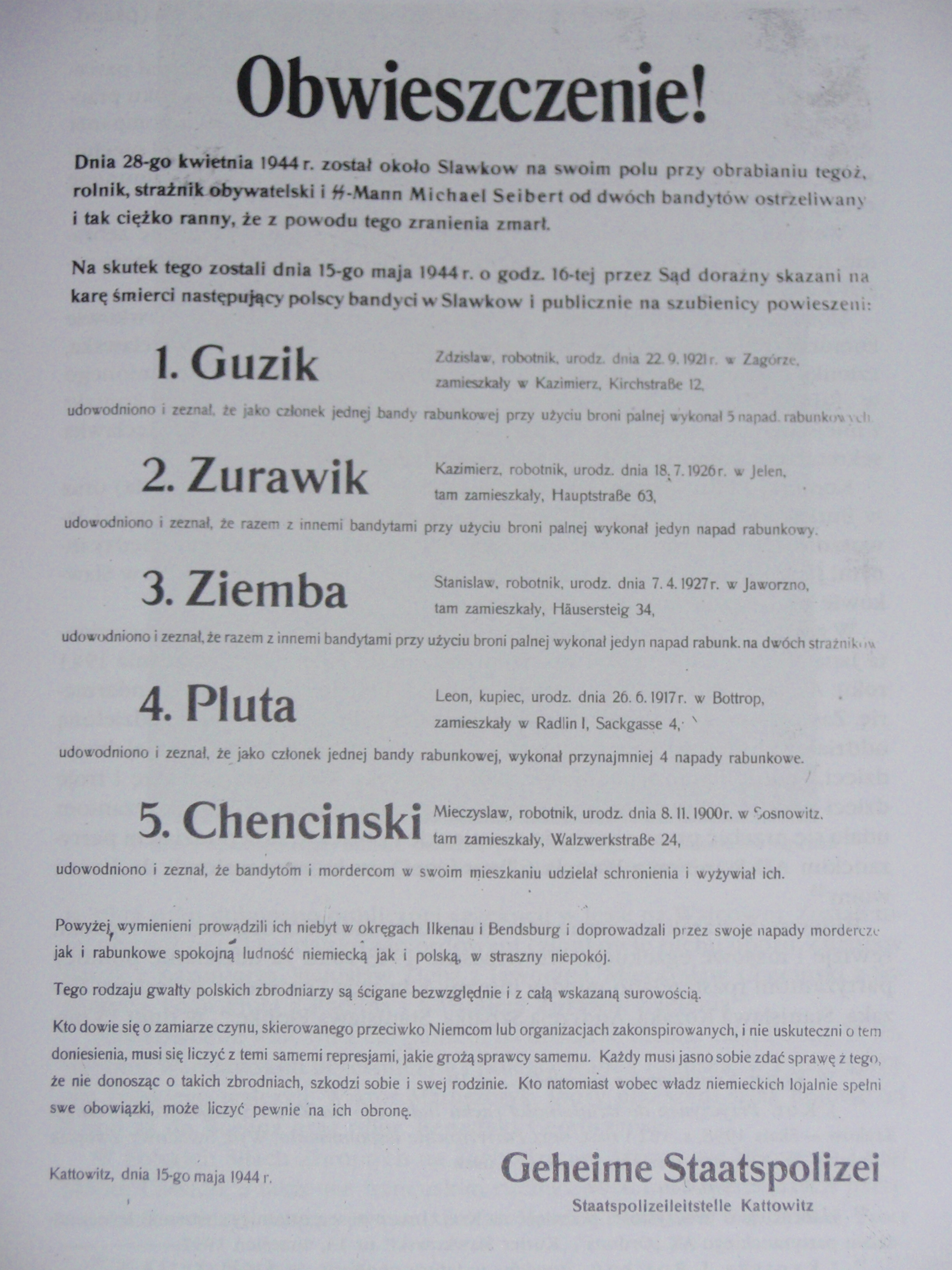 Official announcement of German occupying authorities in Poland.